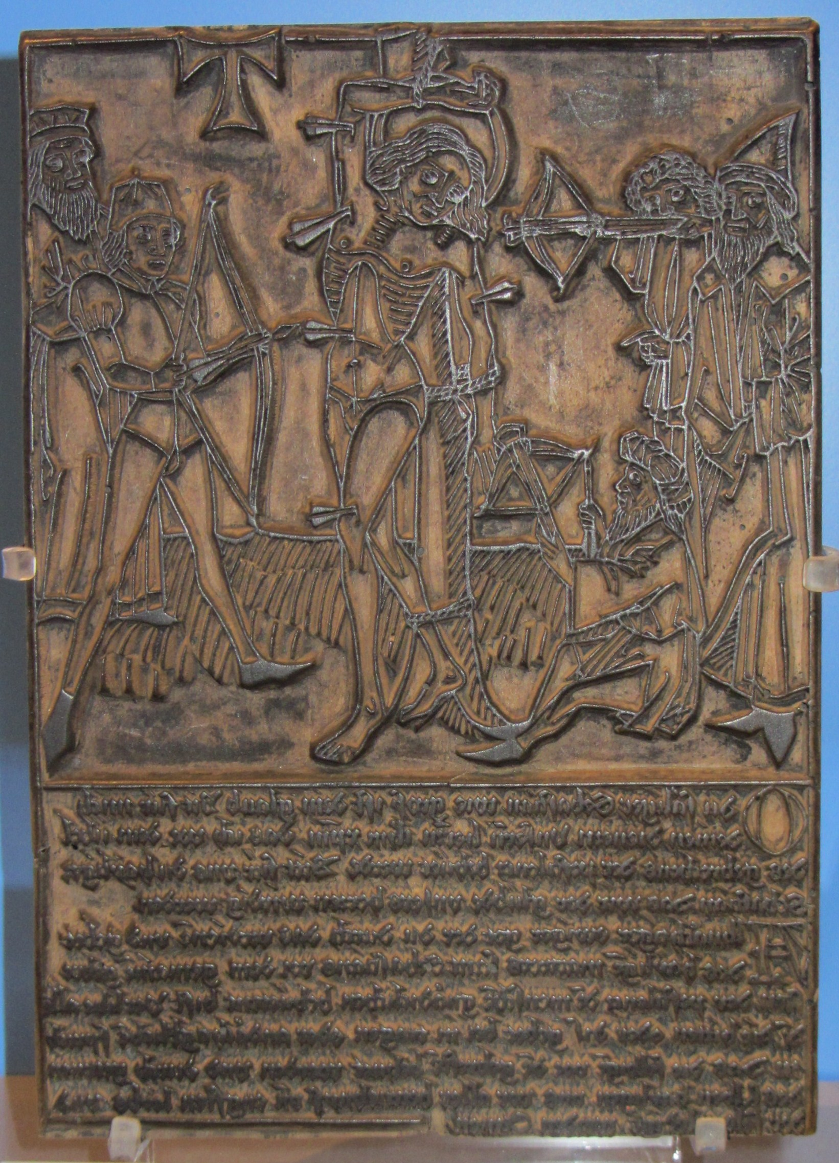 Woodblock of St Sebastian from South Germany. Circa 1470-1475. British Museum 1847,0522.1.